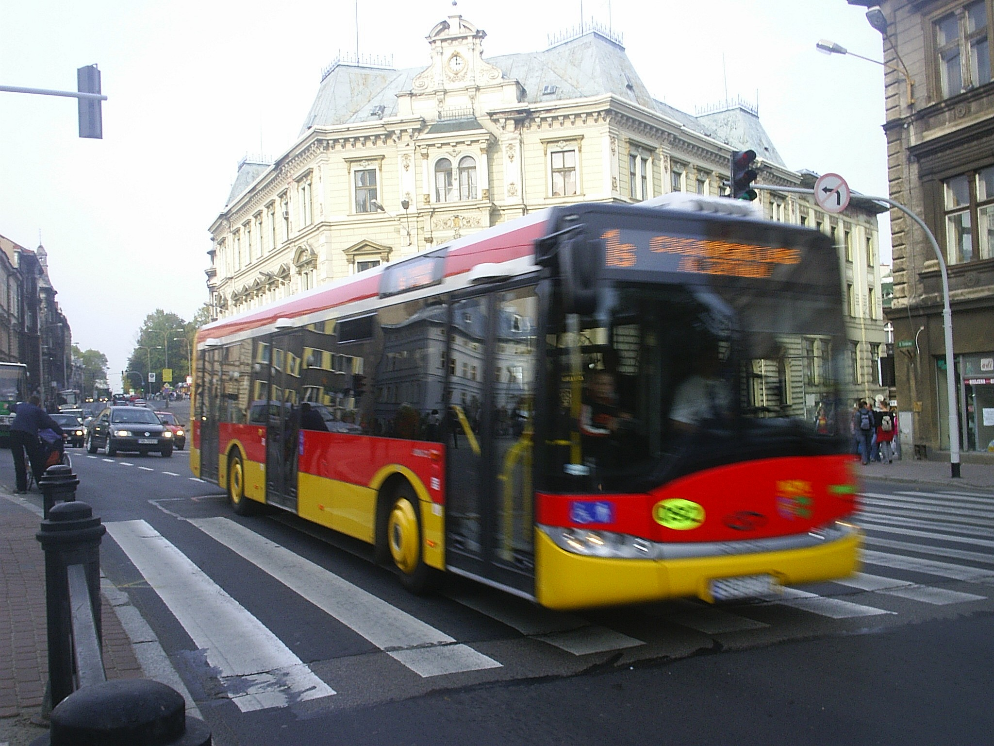 Solaris Urbino 12 W2 bus (#092) in Bielsko-Biała, Poland. Built 2006, MZK Bielsko-Biała operator.